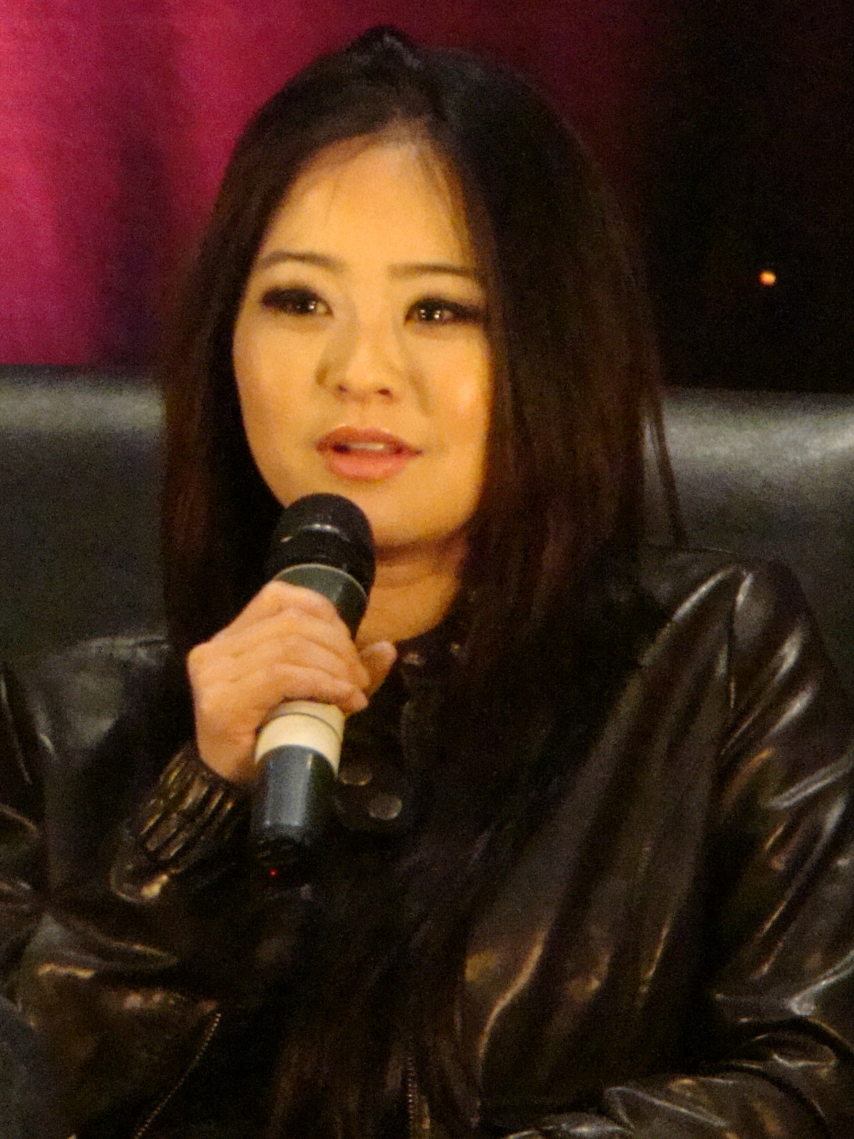 The actress Julia Ling